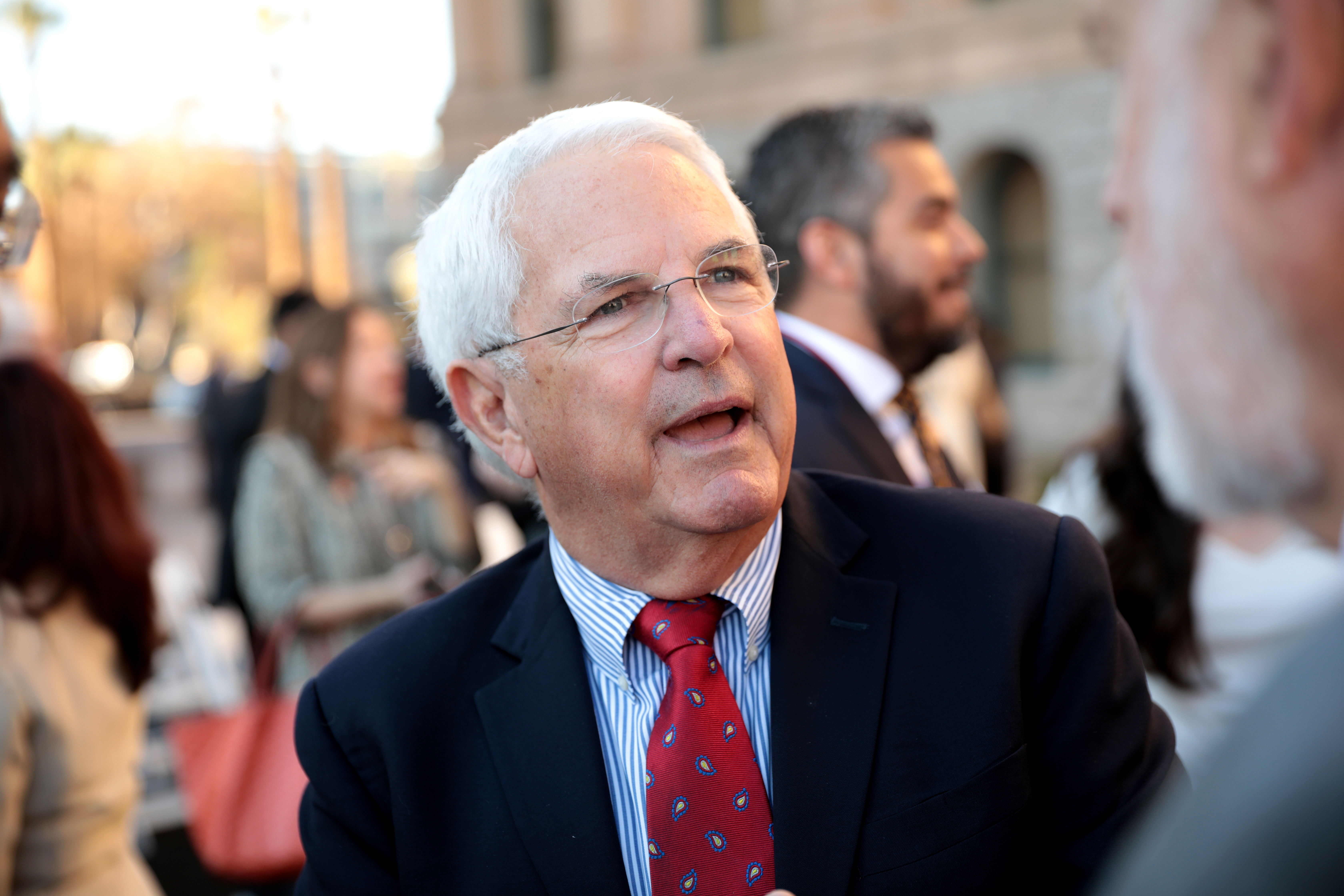 Former U.S. Congressman John Shadegg speaking with attendees at the 2019 Inauguration of Governor Doug Ducey and statewide officials at the Arizona State Capitol building in Phoenix, Arizona.